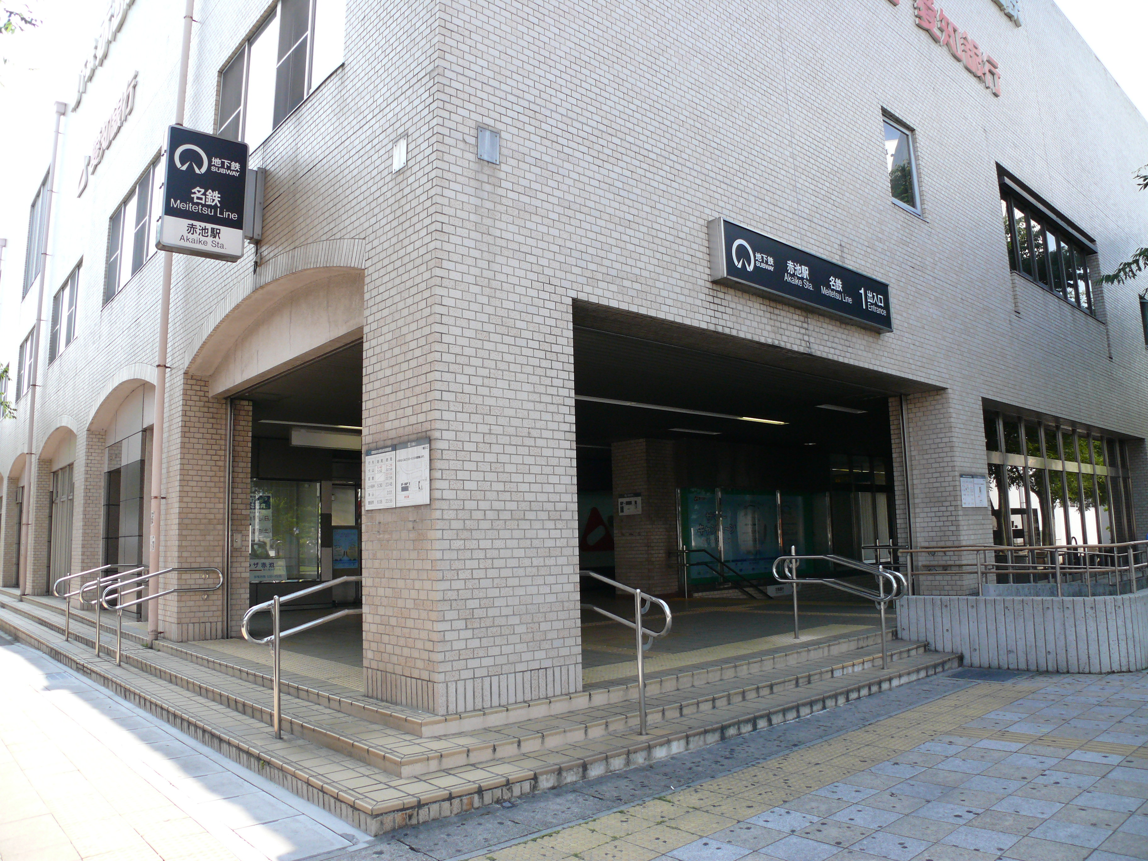 Turumai&Meitetsu Toyota Line Akaike Station.